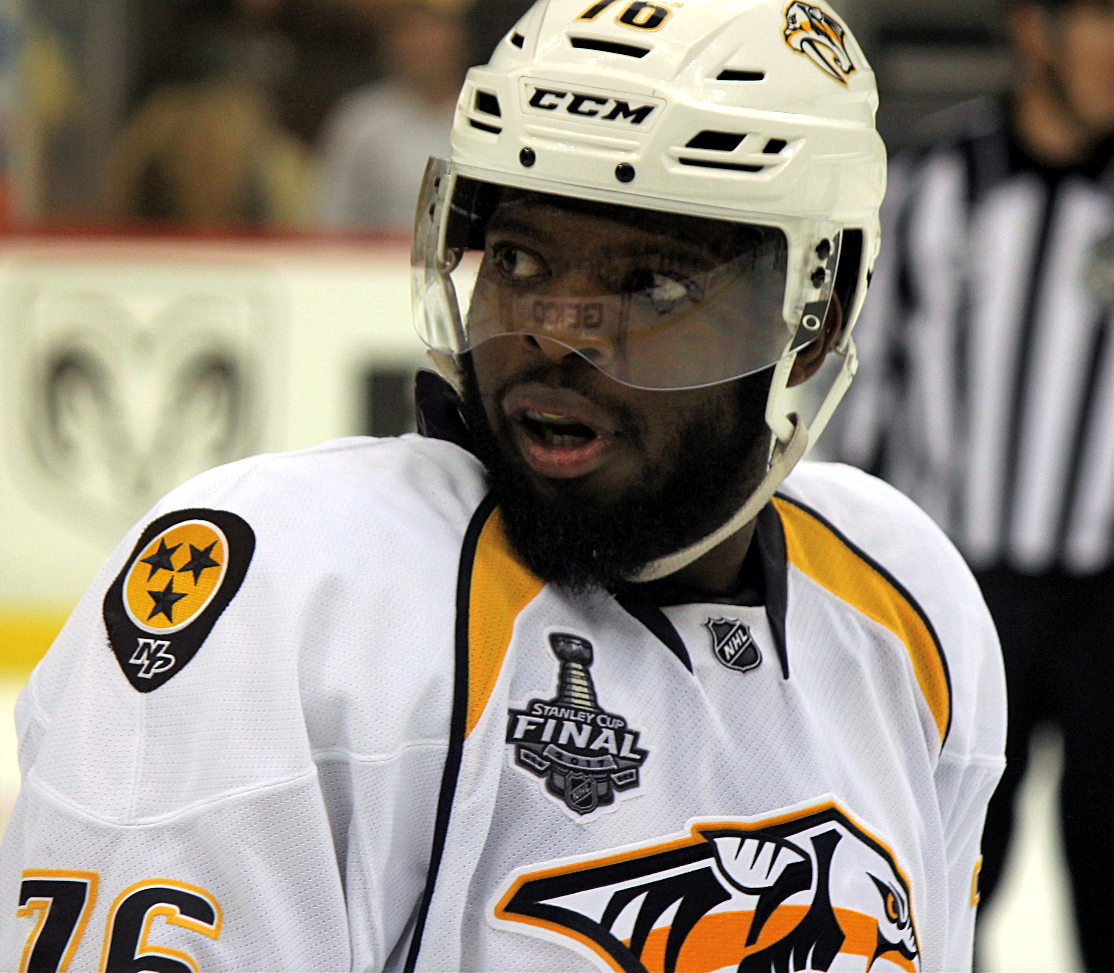 Nashville Predators defenseman P.K. Subban during game 5 of the Stanley Cup Final against the Pittsburgh Penguins, June 8, 2017, at PPG Paints Arena in Pittsburgh, PA.